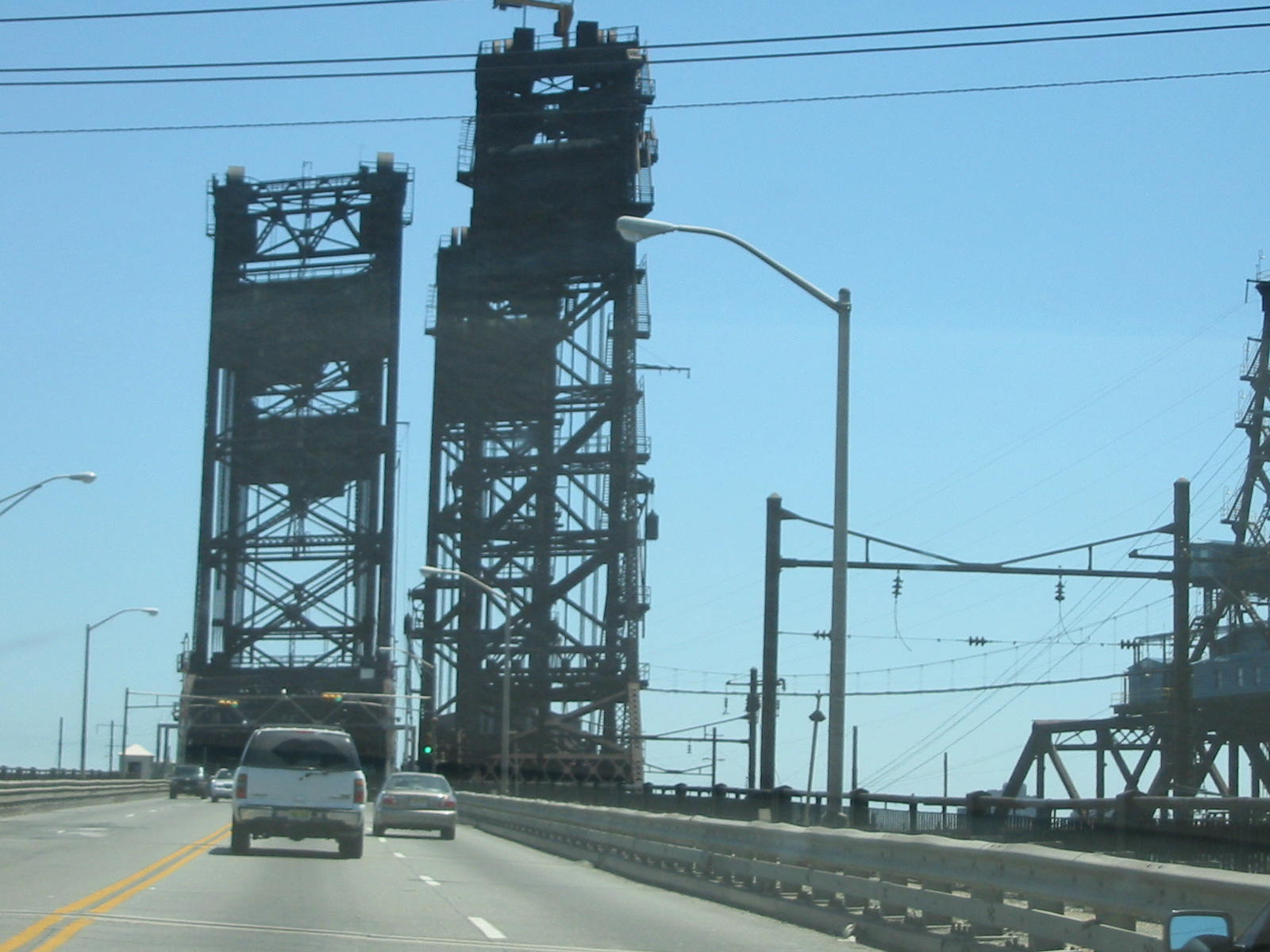 Looking east through the Wittpenn Bridge over the Hackensack River in Kearny, New Jersey and Jersey City, New Jersey and the adjacent New Jersey Transit bridge. Photo taken May 30, 2004 by User:SPUI.